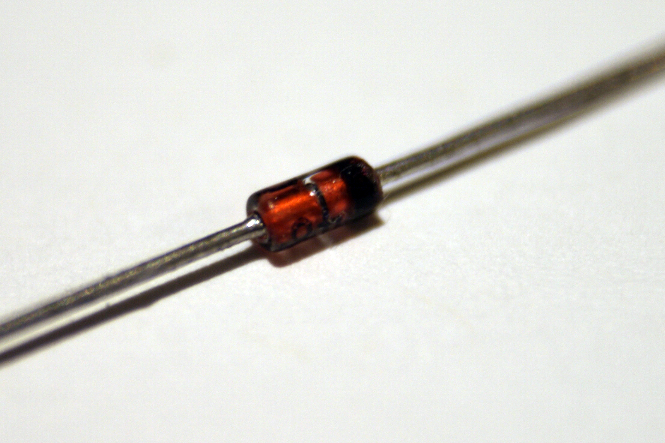 A zener diode.